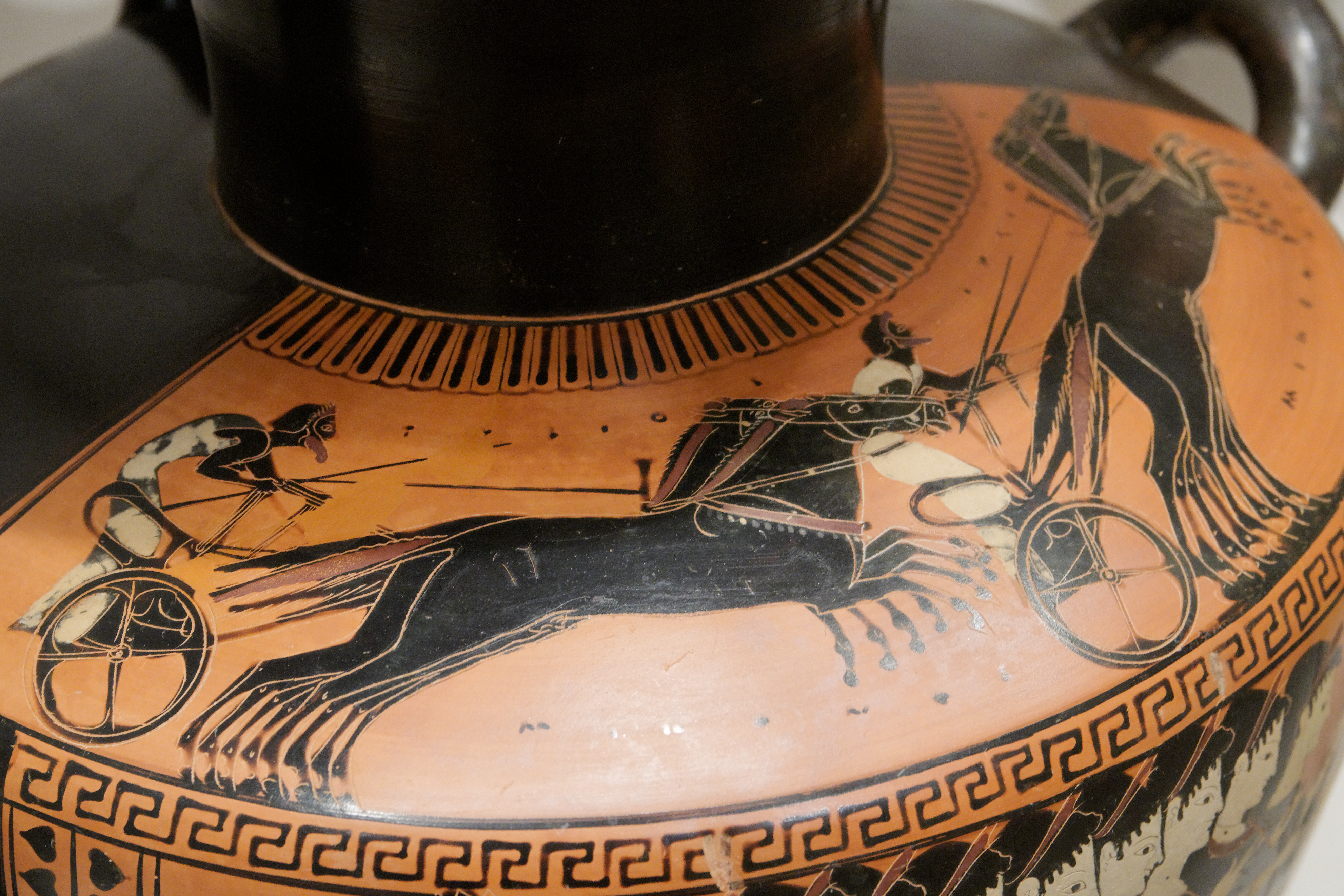 Chariot race. Shoulder of an Attic black-figure hydria.